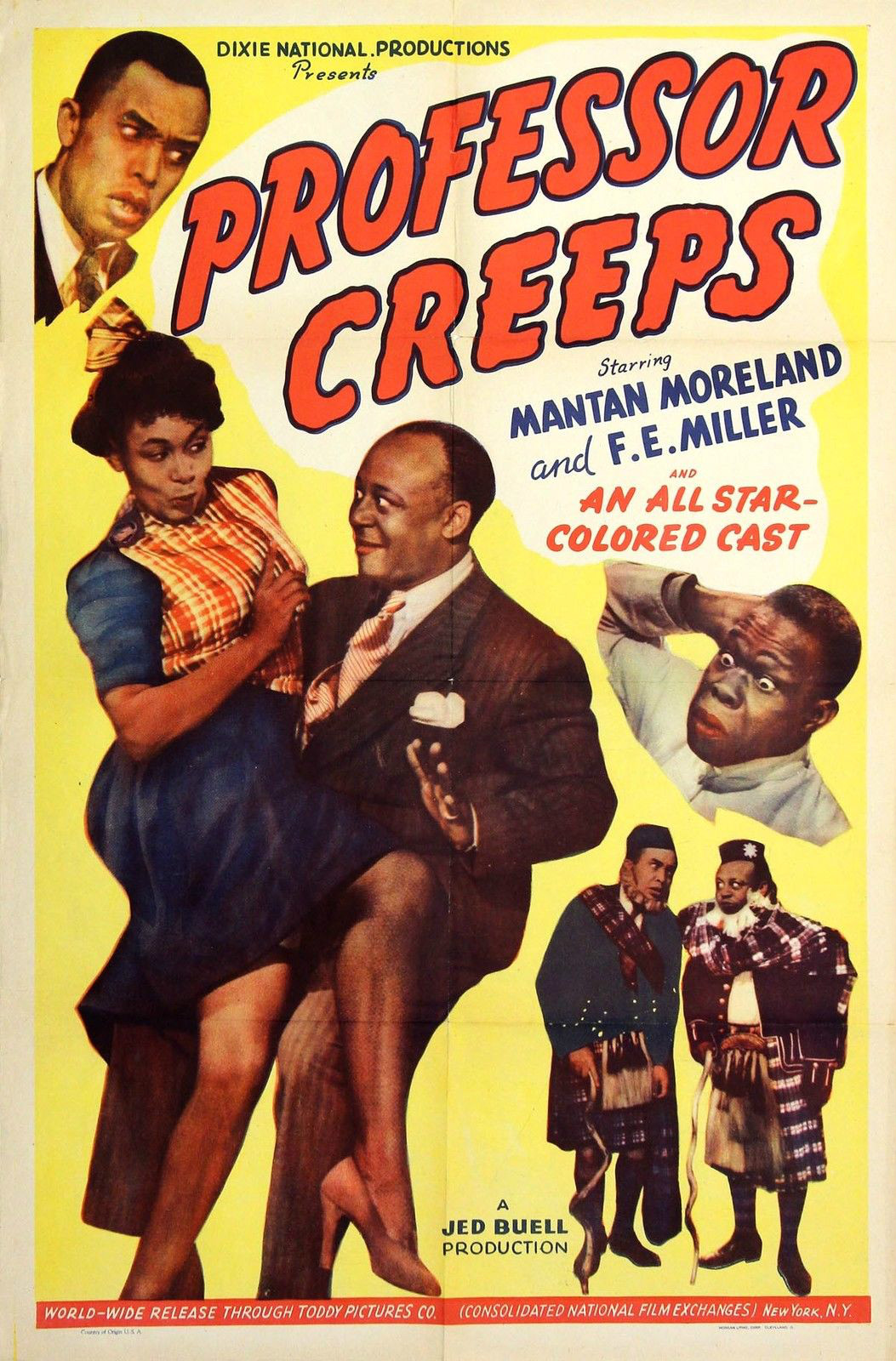 Poster for the 1942 film Professor Creeps. There are no copyright marks. At bottom left is Country of origin USA. At bottom right is Morgan Litho. Corp. Cleveland, O.-they printed the poster.